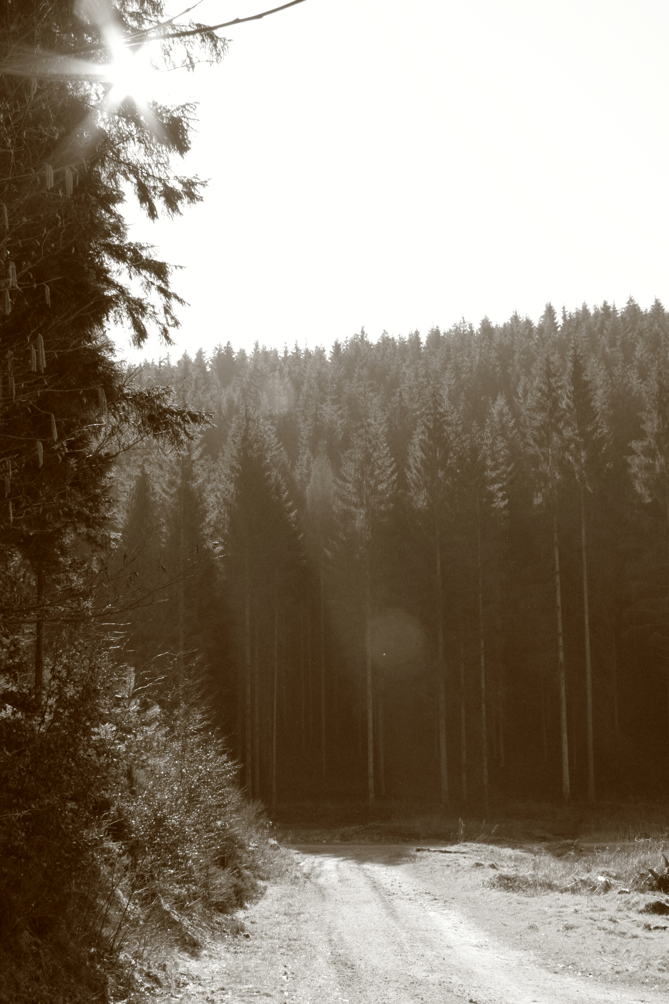 Forest in Gaume, Belgium. The light was quite strange and giving the impression of very big tree in the back. The forest is in between Étalle, Chantemelle and Saint-Léger.